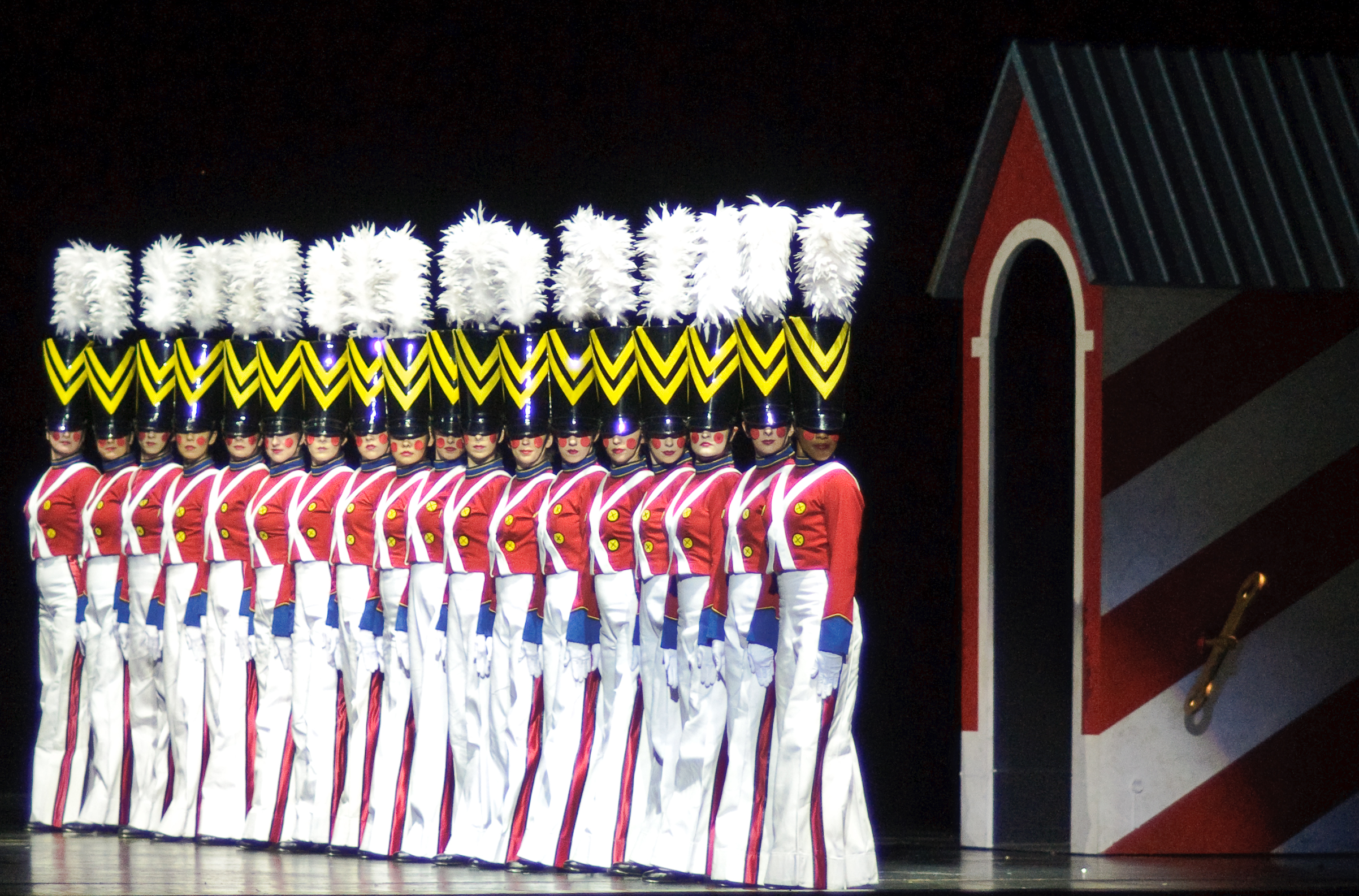 The Radio City Rockettes perform the March of the Wooden Soldier at the Christmas Spectacular in Radio City Music Hall